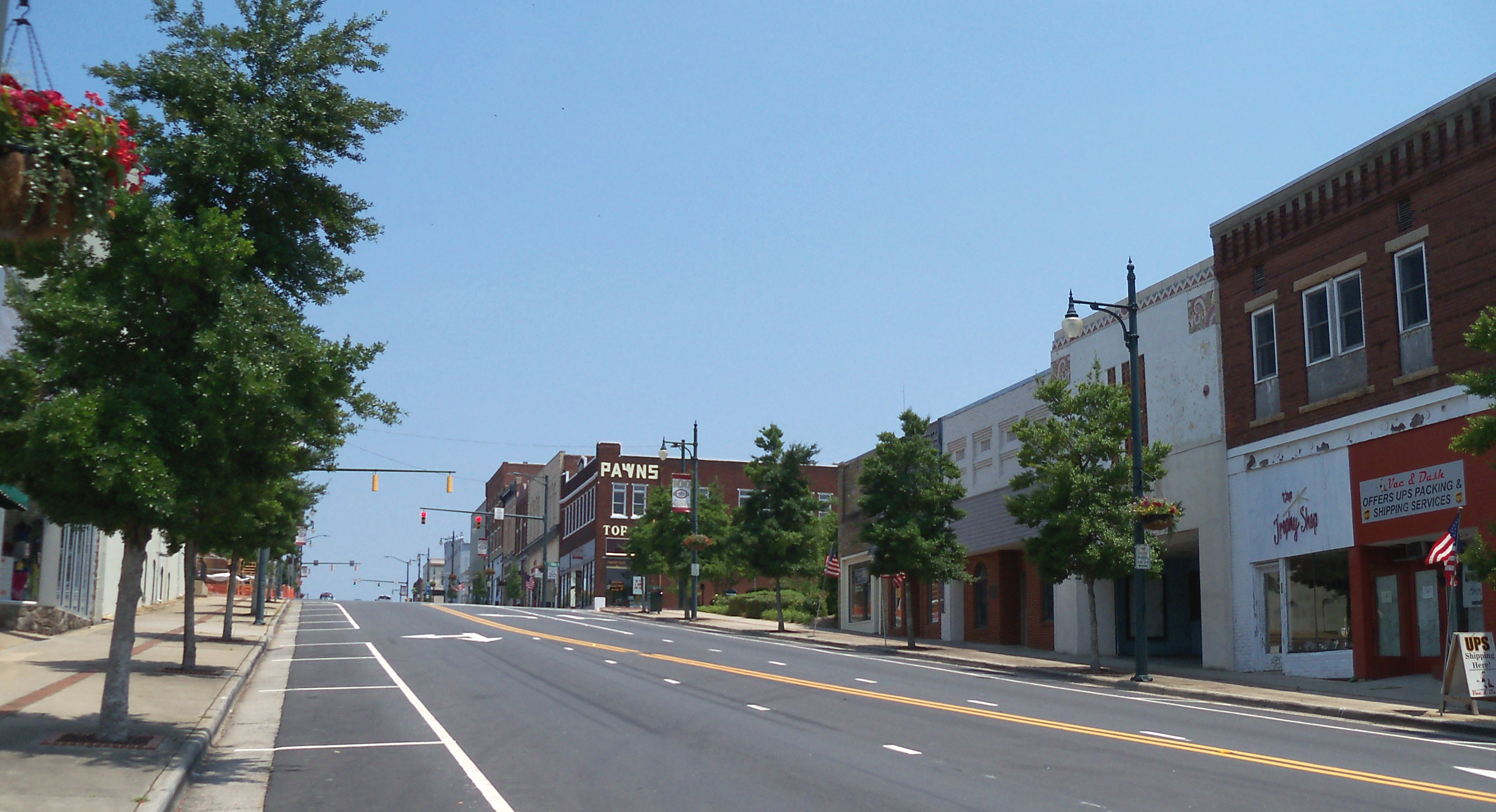 Street in downtown Albemarle, North Carolina, USA.